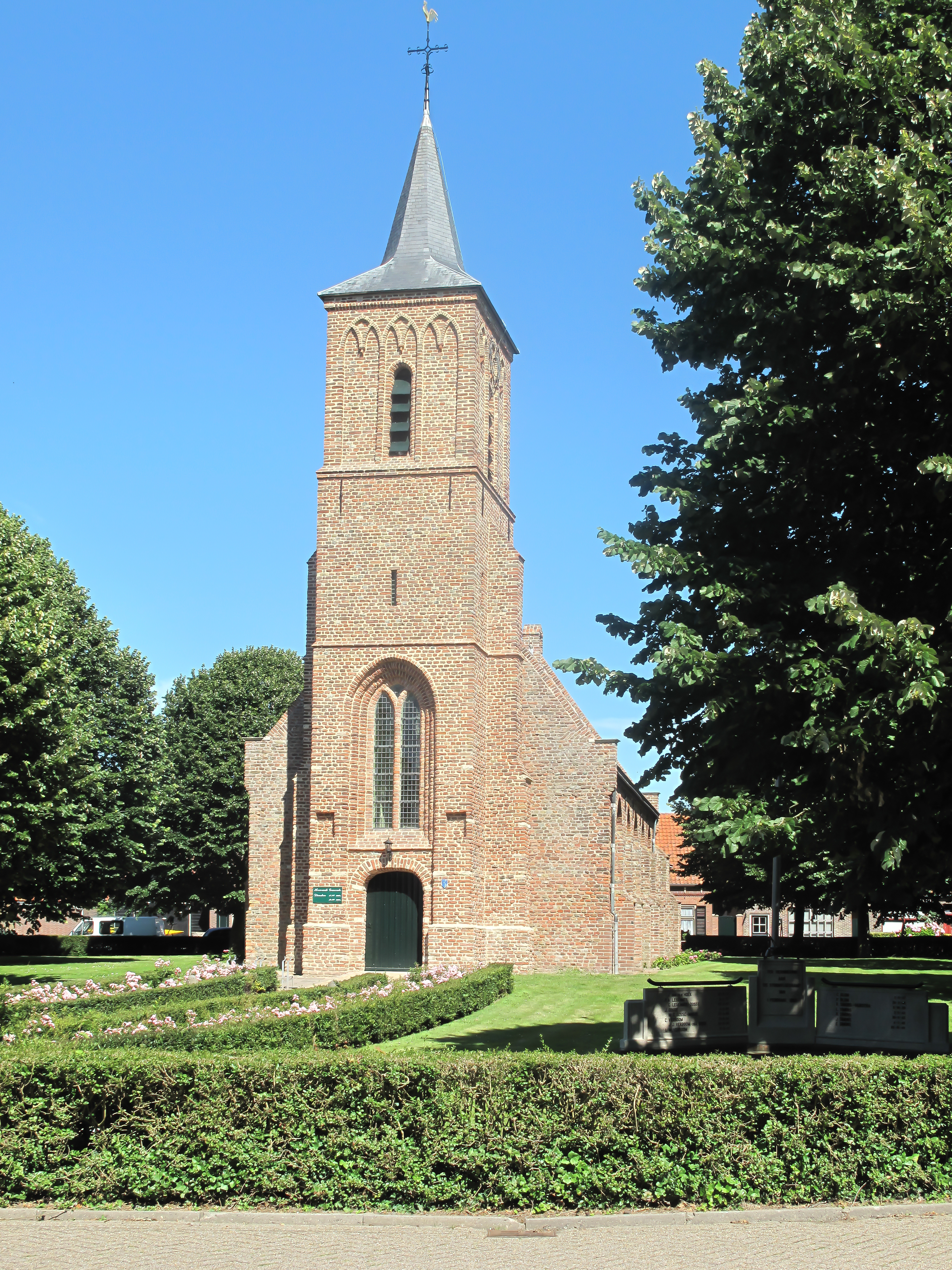 Serooskerke, church